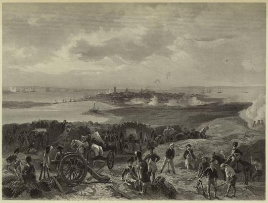 A depiction of the Siege of Charleston (1780) by Alonzo Chappel.